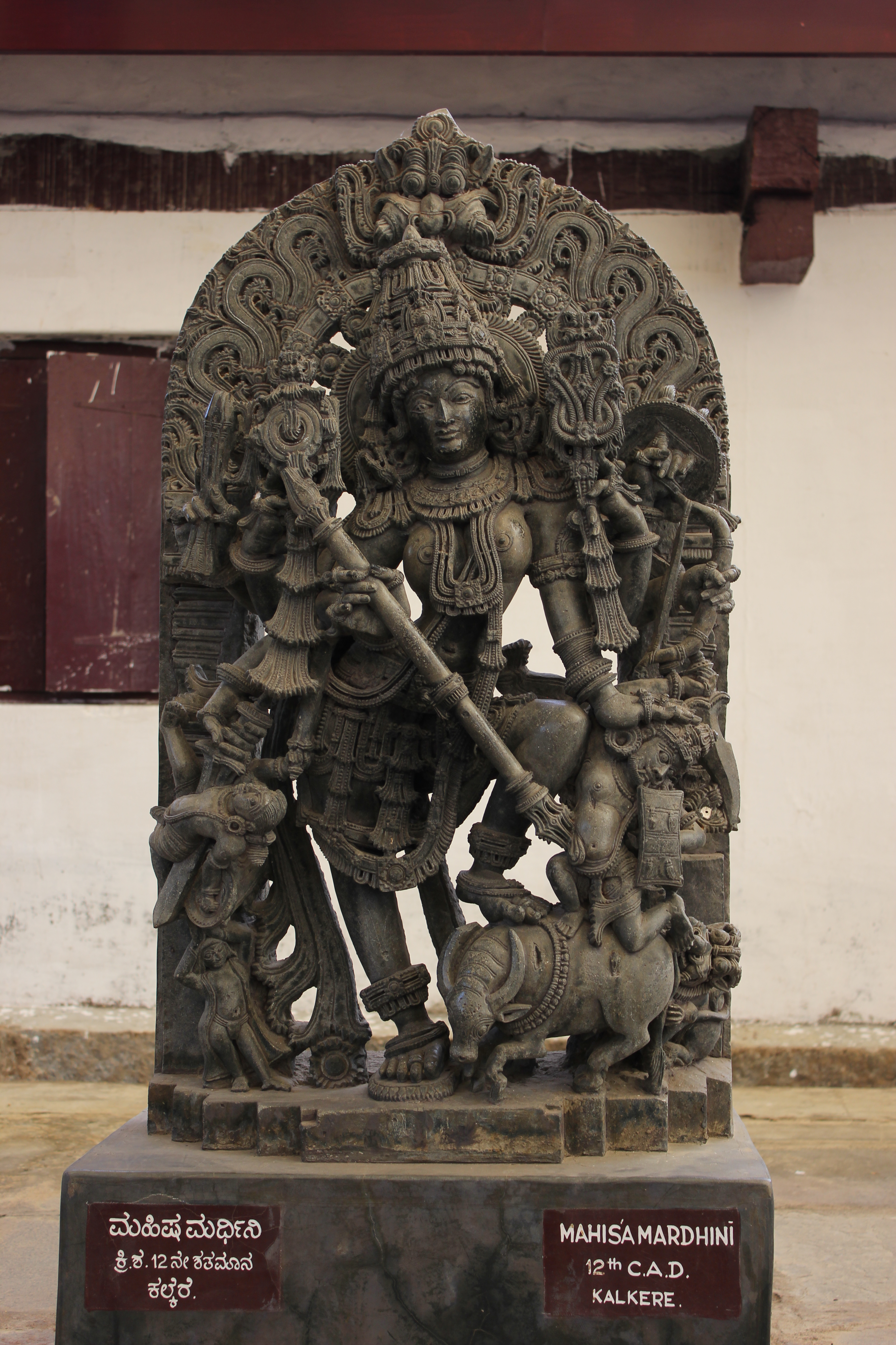 This photograph was taken at the Shivappa Nayaka palace in Shivamogga city (formerly Shimoga) in Karnataka state, India